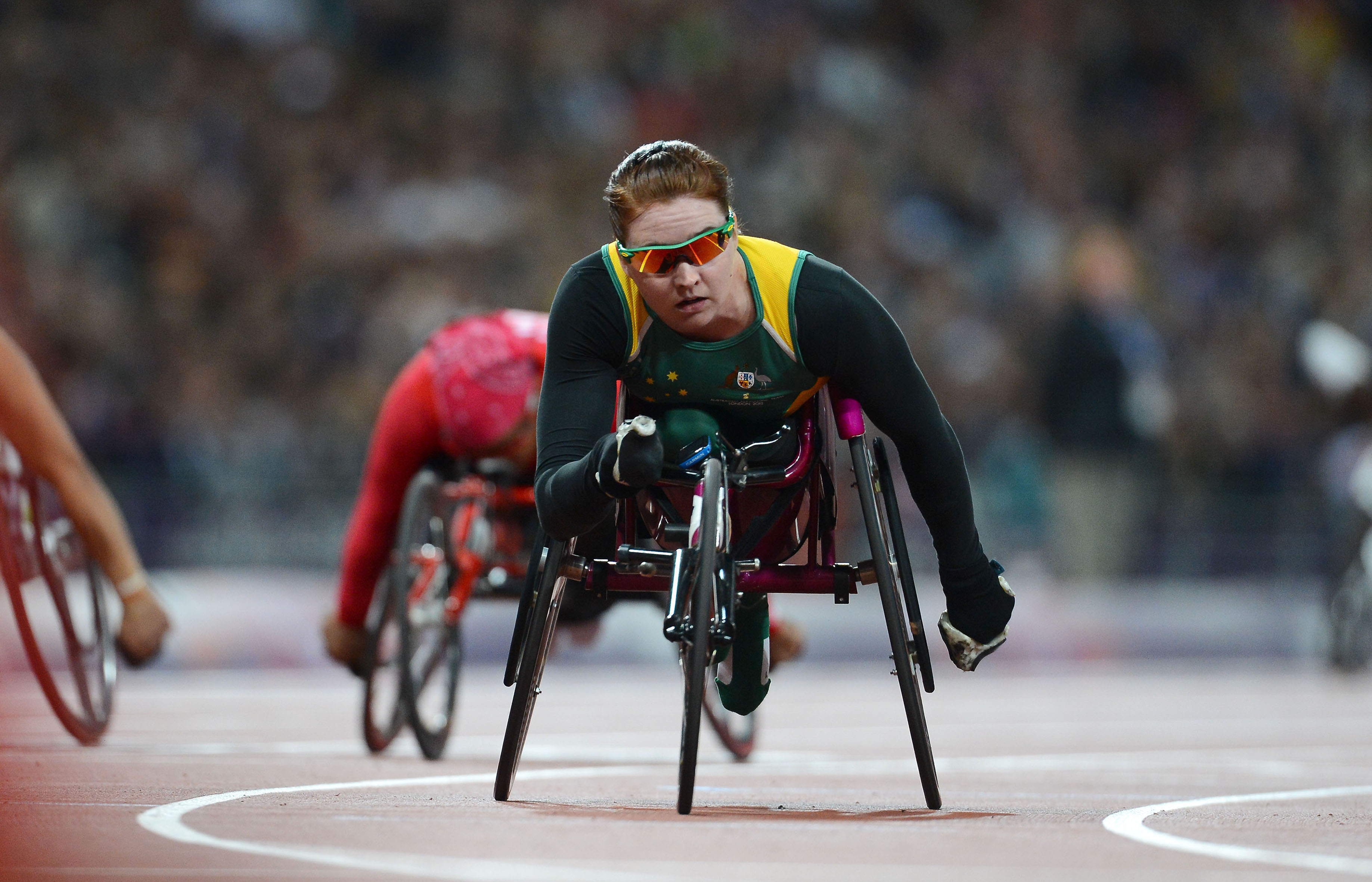 Photograph of Australian Paralympic team member Angela Ballard at the 2012 Summer Paralympic Games in London